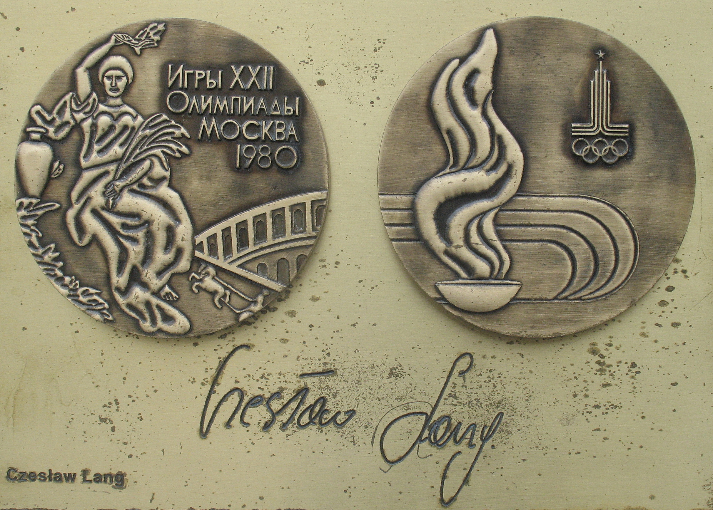 Czeslaw Lang medal & autograph in Avenue of Sport Stars Dziwnów